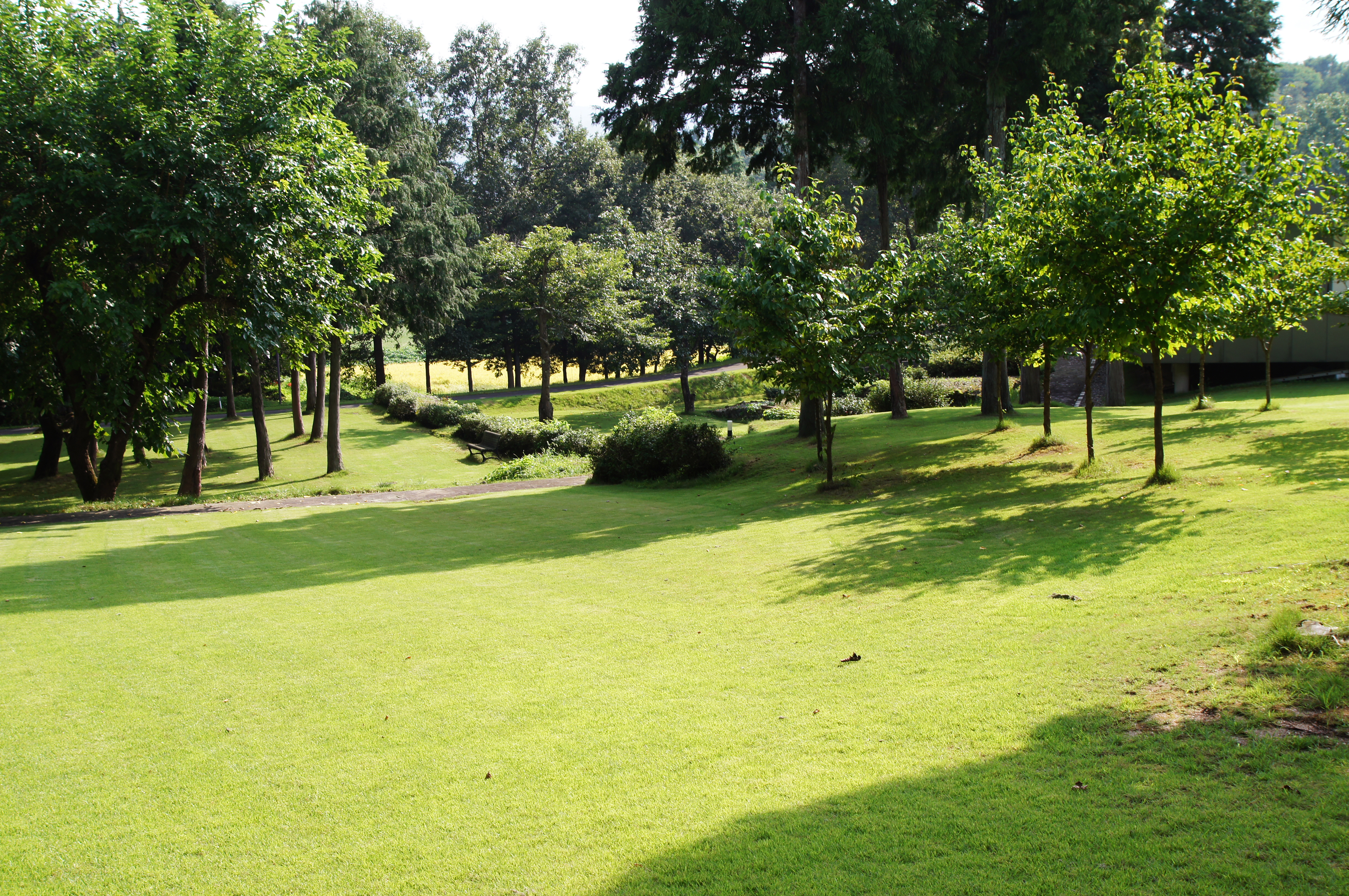 Uemura Naomi Memorial Museum in Kannabe highlands, Toyooka, Hyogo prefecture, Japan.